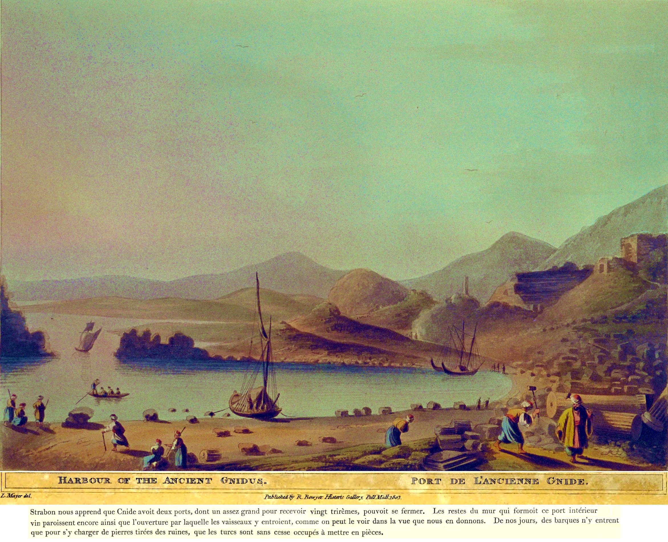 Haven van Cinudus ui Views in the Ottoman Empire, 1803